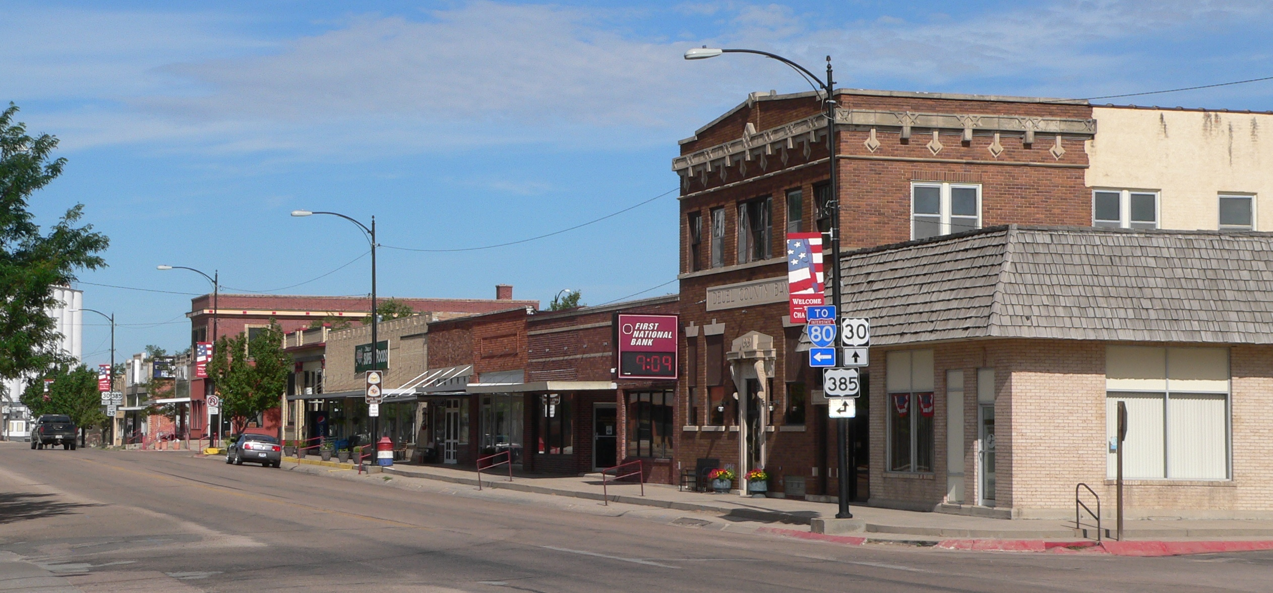 Downtown Chappell, Nebraska: north side of 2nd Street, looking northwest from Babcock Avenue.